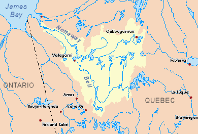 Drainage basin of the Nottaway River, Quebec, Canada.